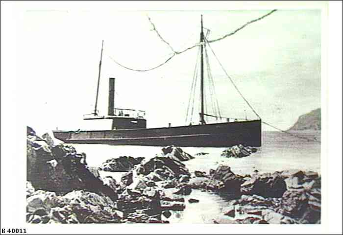 The trawler "Ellen" wrecked on Morgan Beach Yankalilla coast 12 December 1908 - State Library of South Australia image B40011